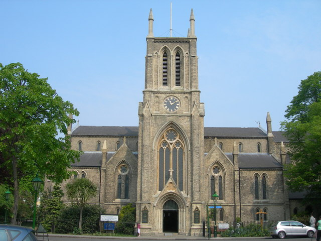 Church of England parish church of St James, Norlands, London W11. On St James's Square. Seen from Addison Avenue, W11